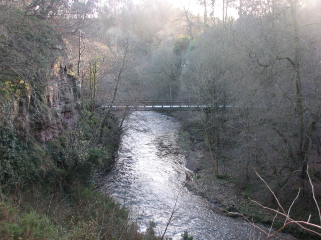 Bridge to Firth House A bridge over the North Esk linking Firth House to Old Woodhouselee. Viewed from the Dalkeith to Penicuik railway path.